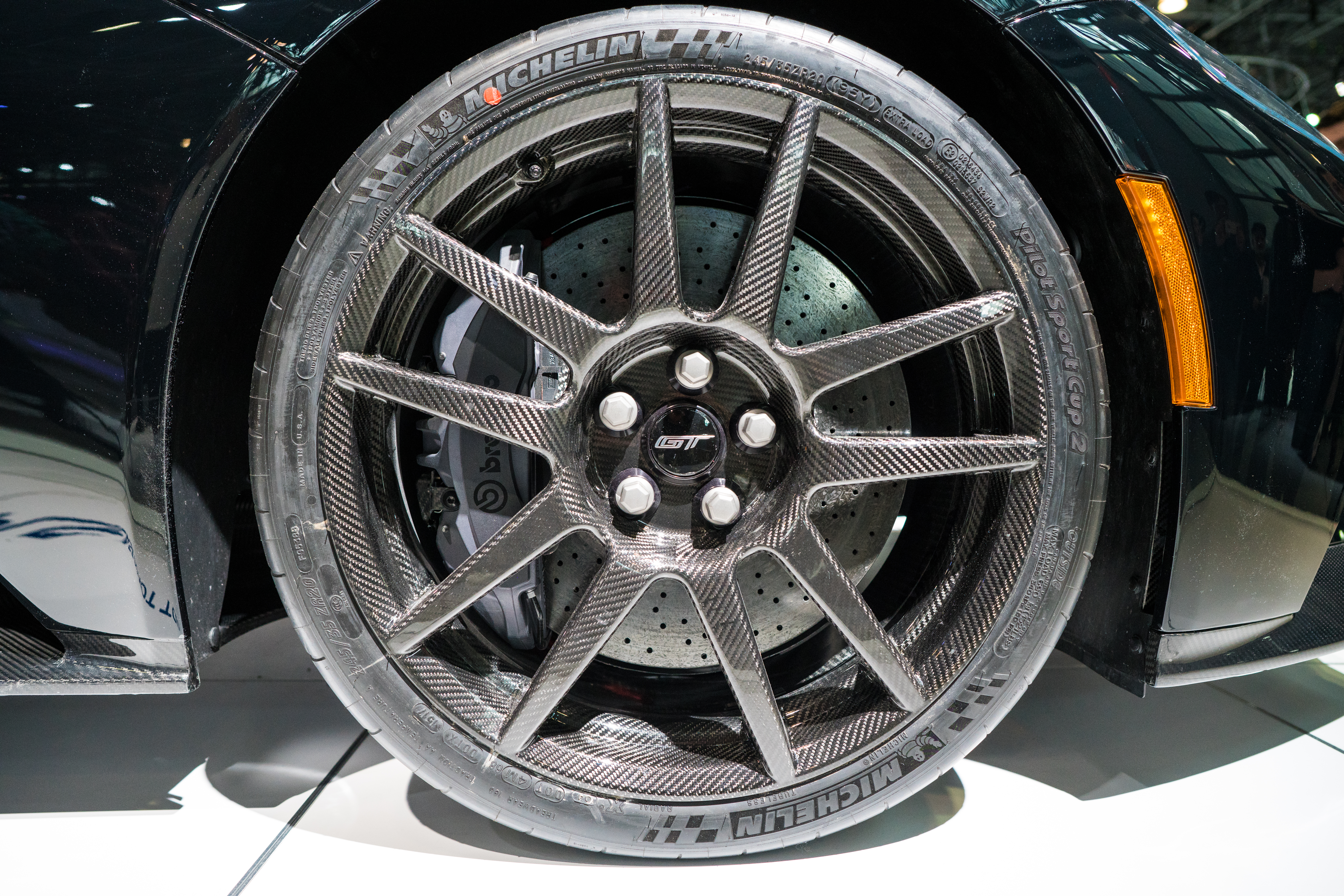 Ford GT at the New York International Auto Show NYIAS